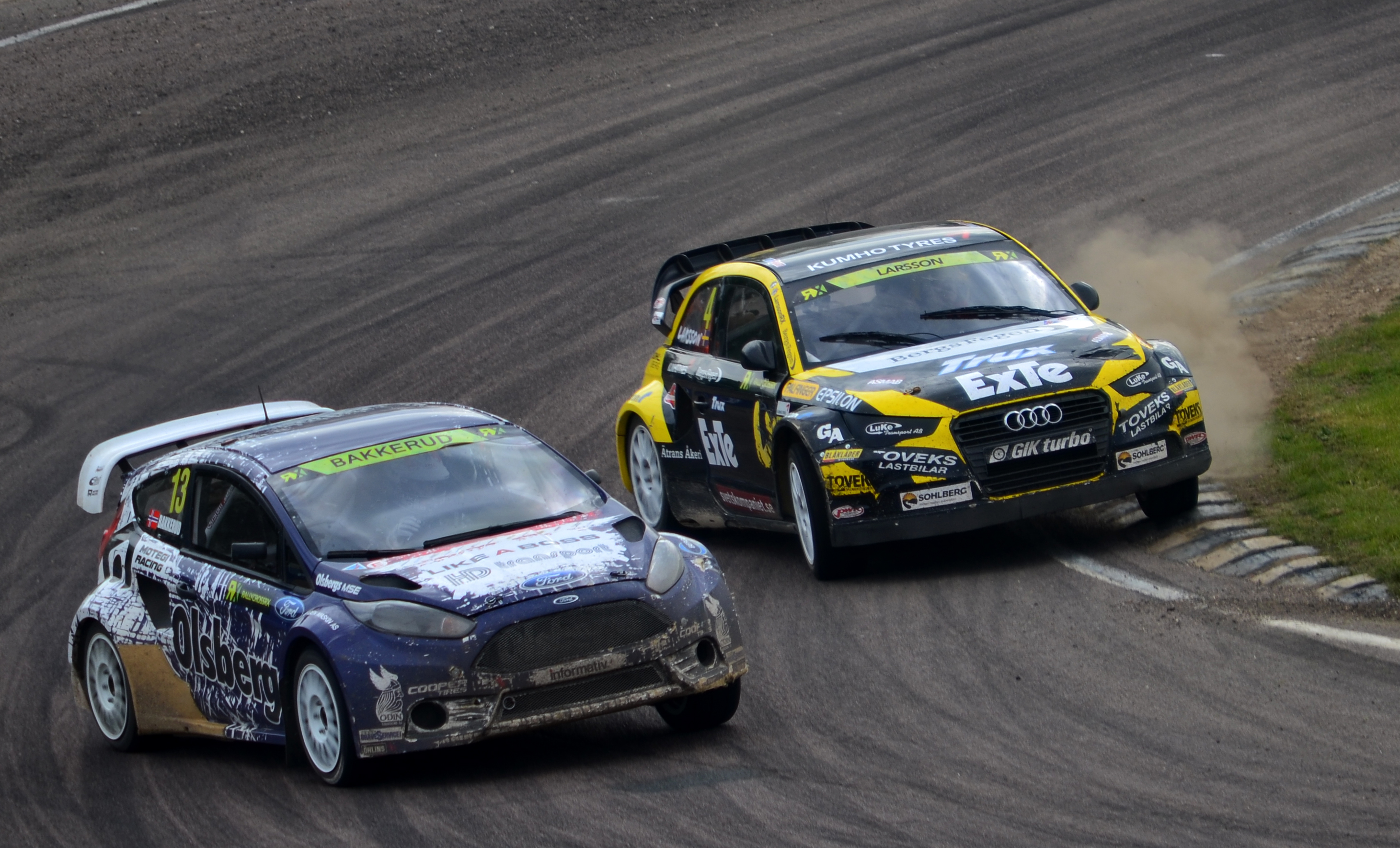 Andreas Bakkerud holds off Robin Larsson through Devil's Elbow at Lydden Hill on the last lap in the super car final of round 2 of the 2014 FIA World Rallycross Championship.